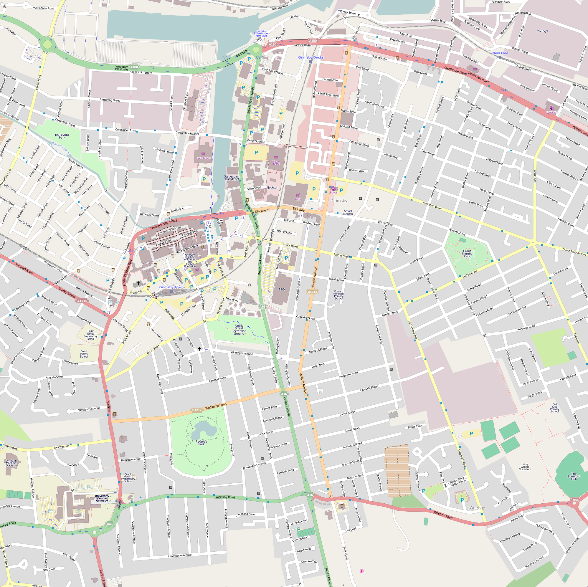 Map of Grimsby Central Geographic limits: N: 53.5771° S: 53.5497° W: -0.1003° E: -0.0541°